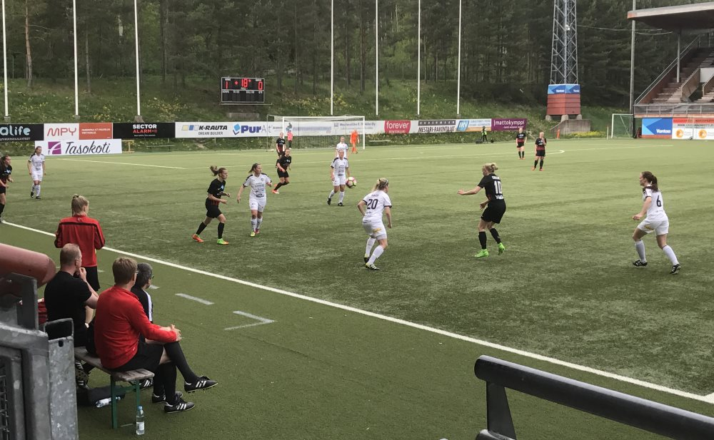 Football match between PK-35 Vantaa and Pallokissat.